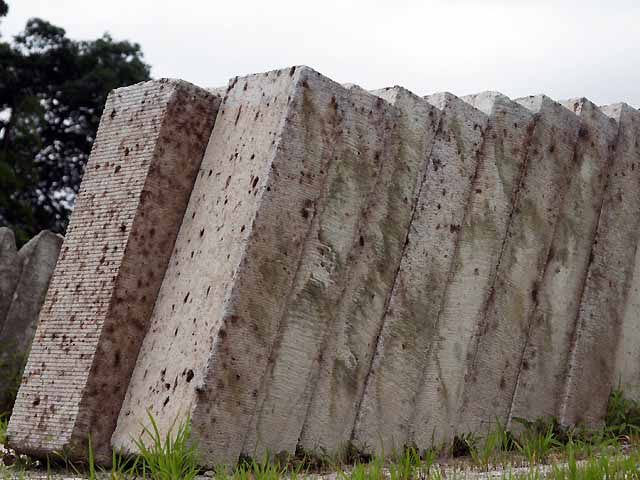 Oya tuffstone plates